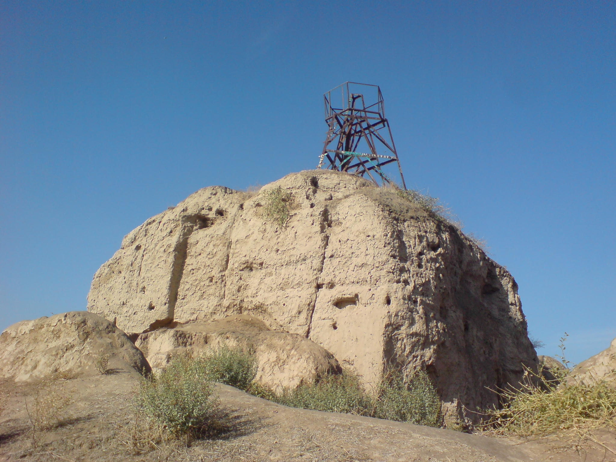 Бугор-цитадель городища Шаштепа (древнейшее поселение на территории г. Ташкента)